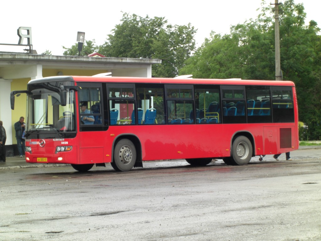 Bus Higer KLQ6118GS in Kingisepp (Russia, Leningrad region}